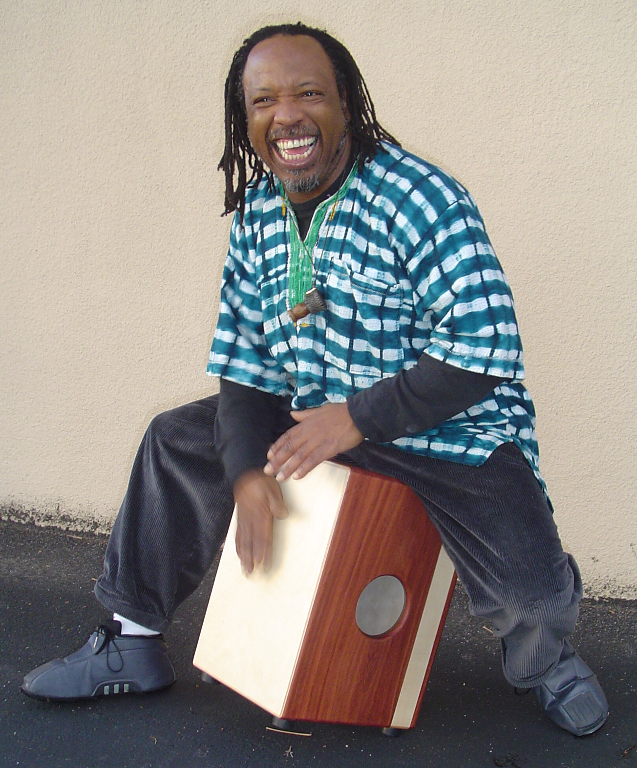 Leon Mobley playing the cajón